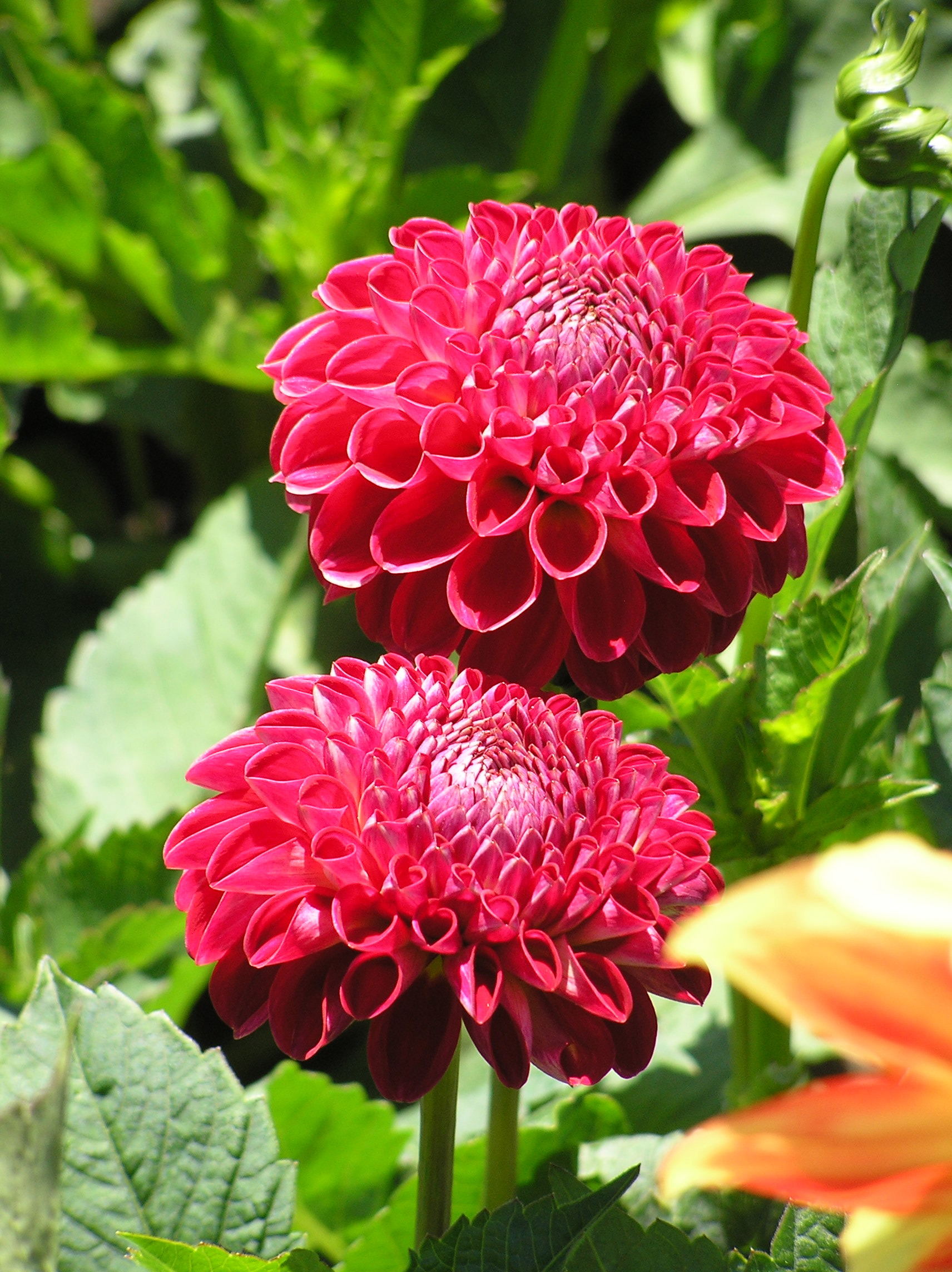 Dahlia near the Conservatory of Flowers in Golden Gate Park, San Francisco